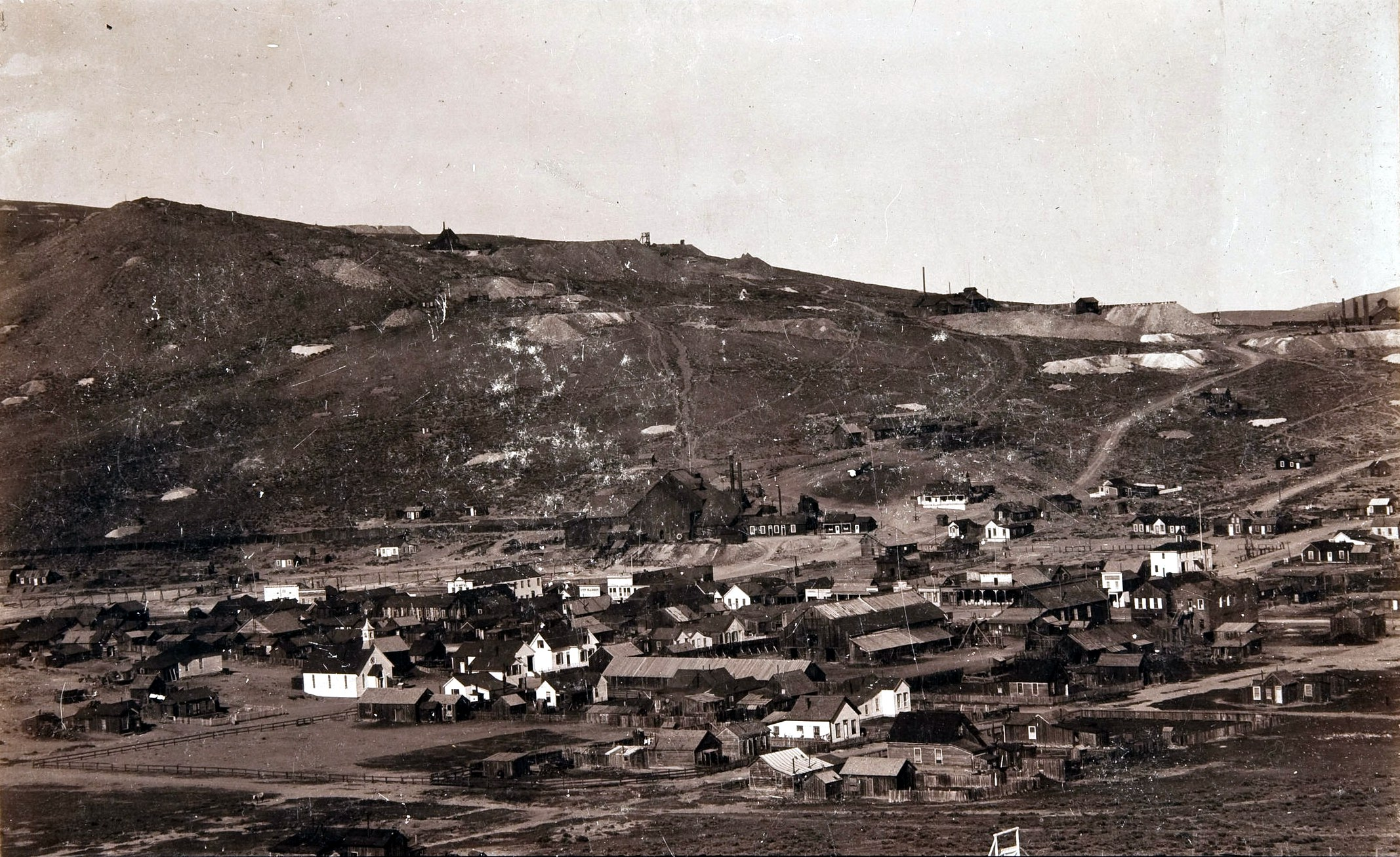 Bird's Eye View photograph of Bodie, California in the 1890s. Looking east from the cemetery.